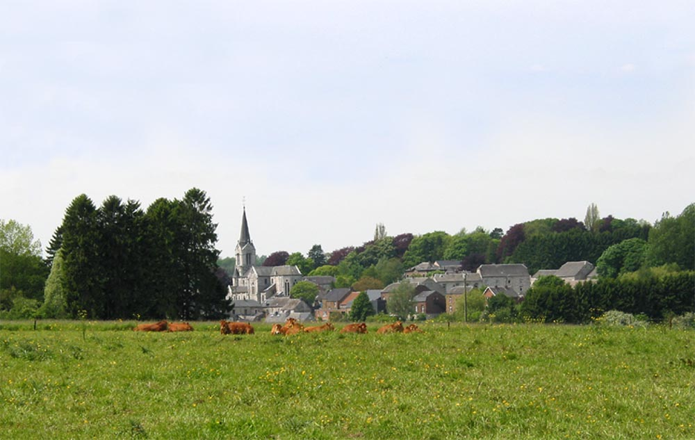 the village and the St. Martin church (1880), Assesse, Belgium